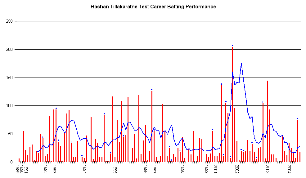 This graph details the Test Match performance of Hashan Tillakaratne. It was created by Raven4x4x. The red bars indicate the player's test match innings, while the blue line shows the average of the ten most recent innings at that point. Note that this average cannot be calculated for the first nine innings. The blue dots indicate innings in which Tillakaratne finished not-out. This graph was generated with Microsoft Excel 2002, using data from Cricinfo and .au.